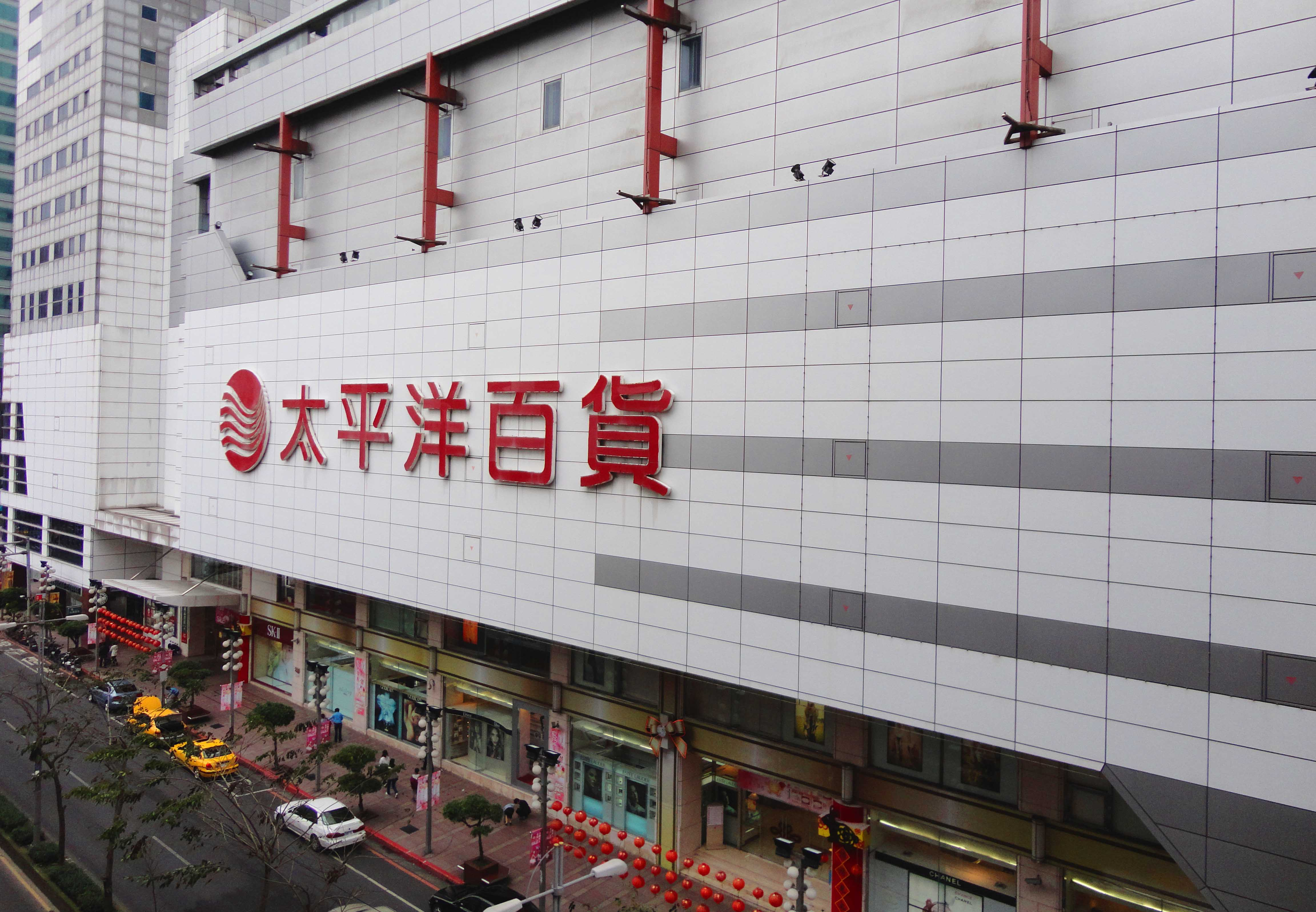 Pacific Department Store Shuang-ho Store located at :238 Jung-Shan Rd., Sec.1, Yung-ho District, New Taipei City